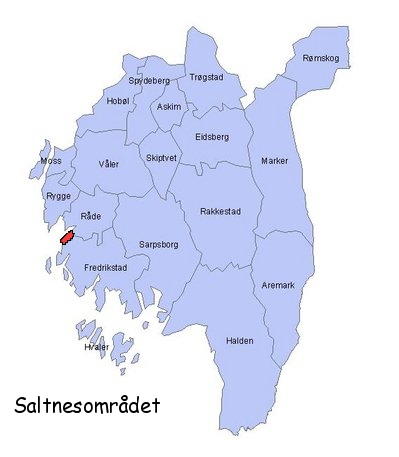 A little map that shows where Saltnes is Made by me